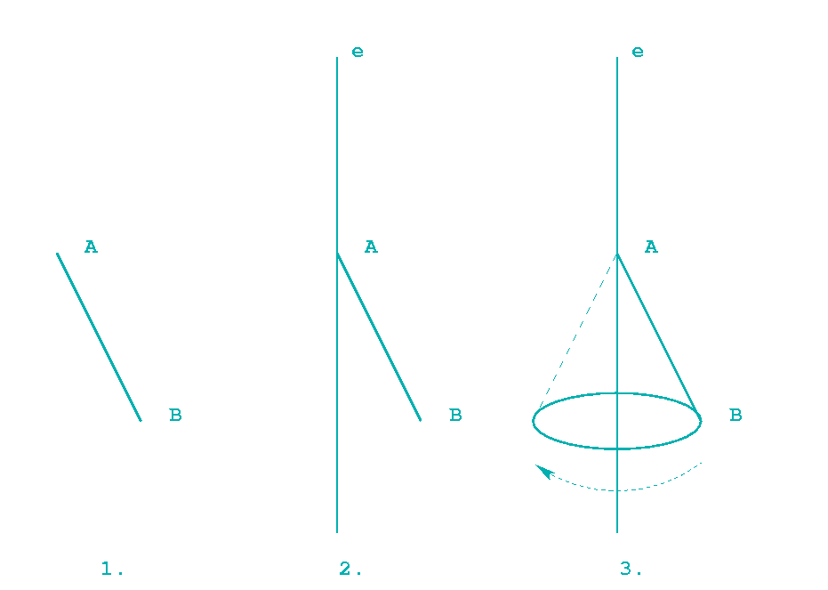 This image demonstrates the construction of a cone as a rotation body. (I drew it with Xfig.)